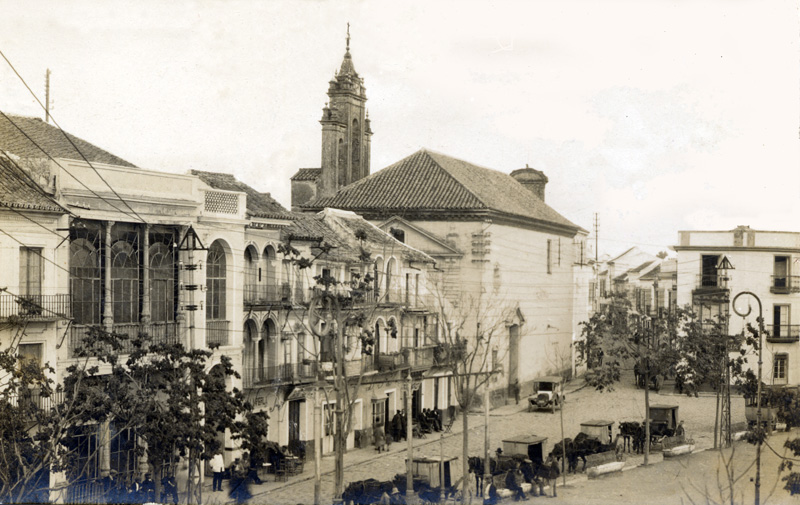 Photography of the Plaza del Altozano of Utrera (Seville, Spain) at the beginning of the 20th century